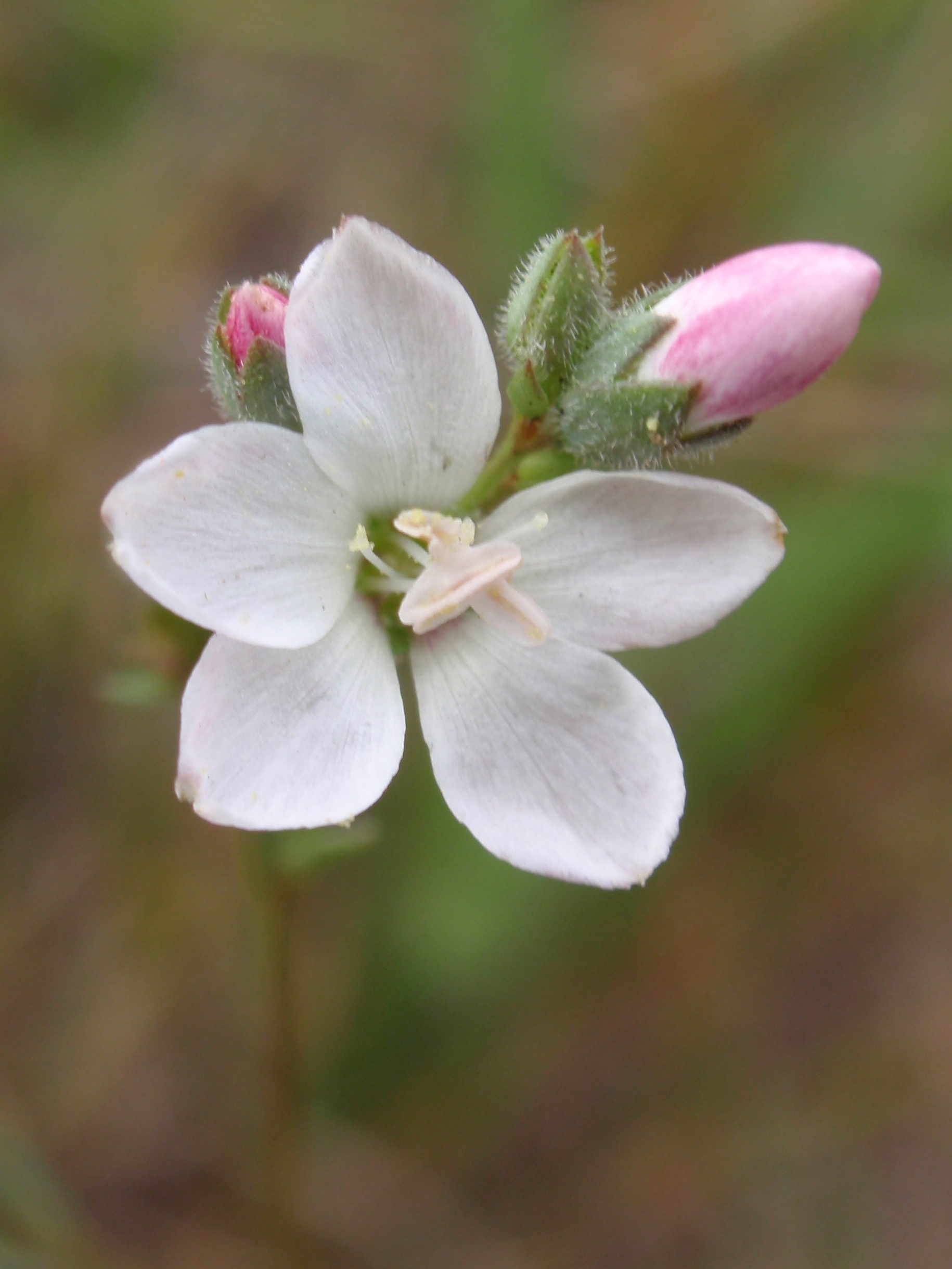 Hesperolinon congestum on Ring Mountain, Tiburon, California, USA.